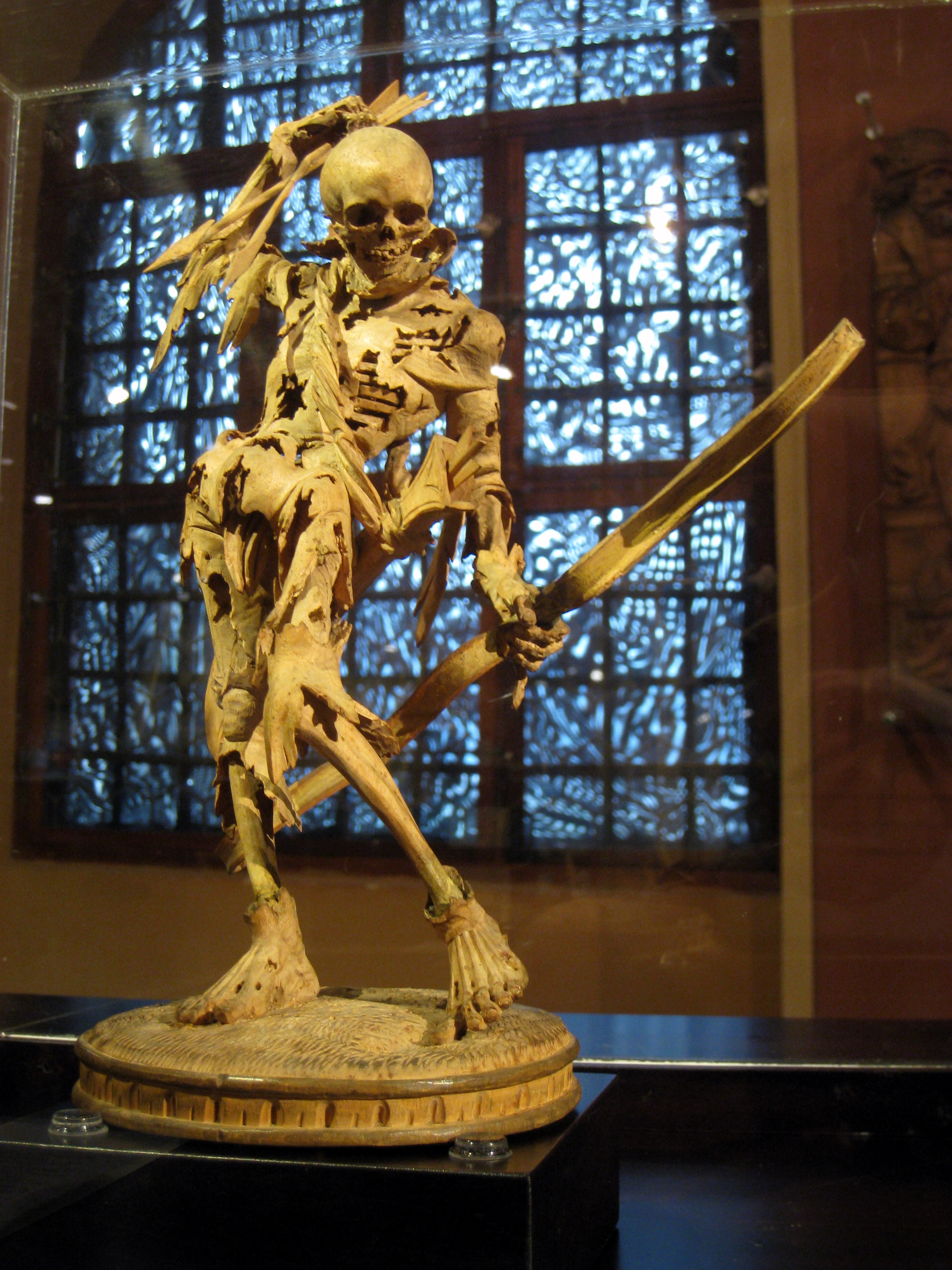 Tödlein [Small Death] in Schloss Ambras Innsbruck, Austria. Attributed to Hans Leinberger; in the inventory of 1596.